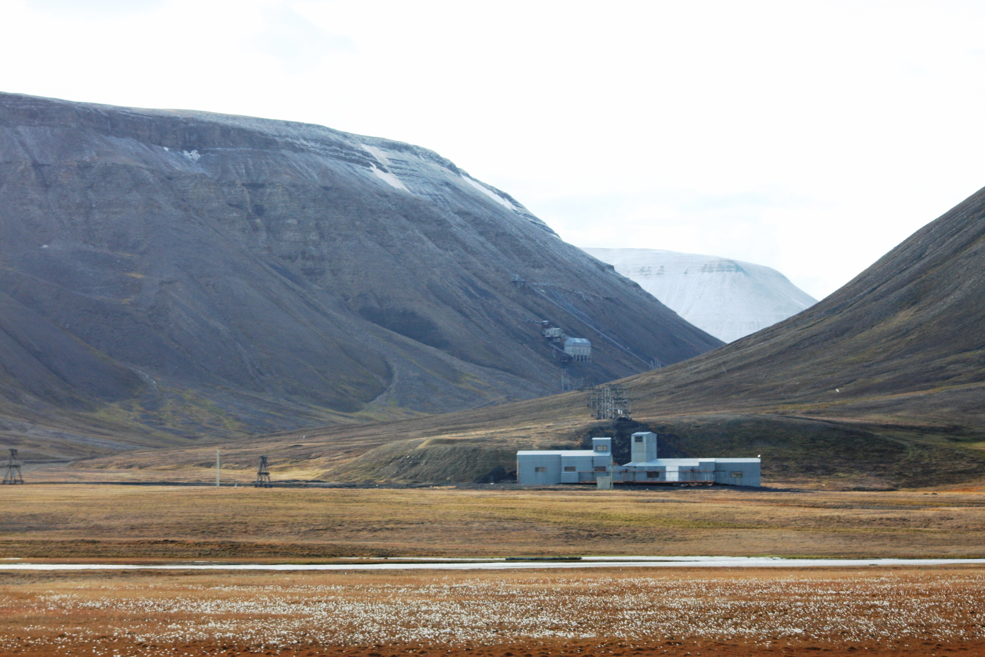 Mine No 5 (Gruve 5) in Adventdalen-Endalen, Spitsbergen